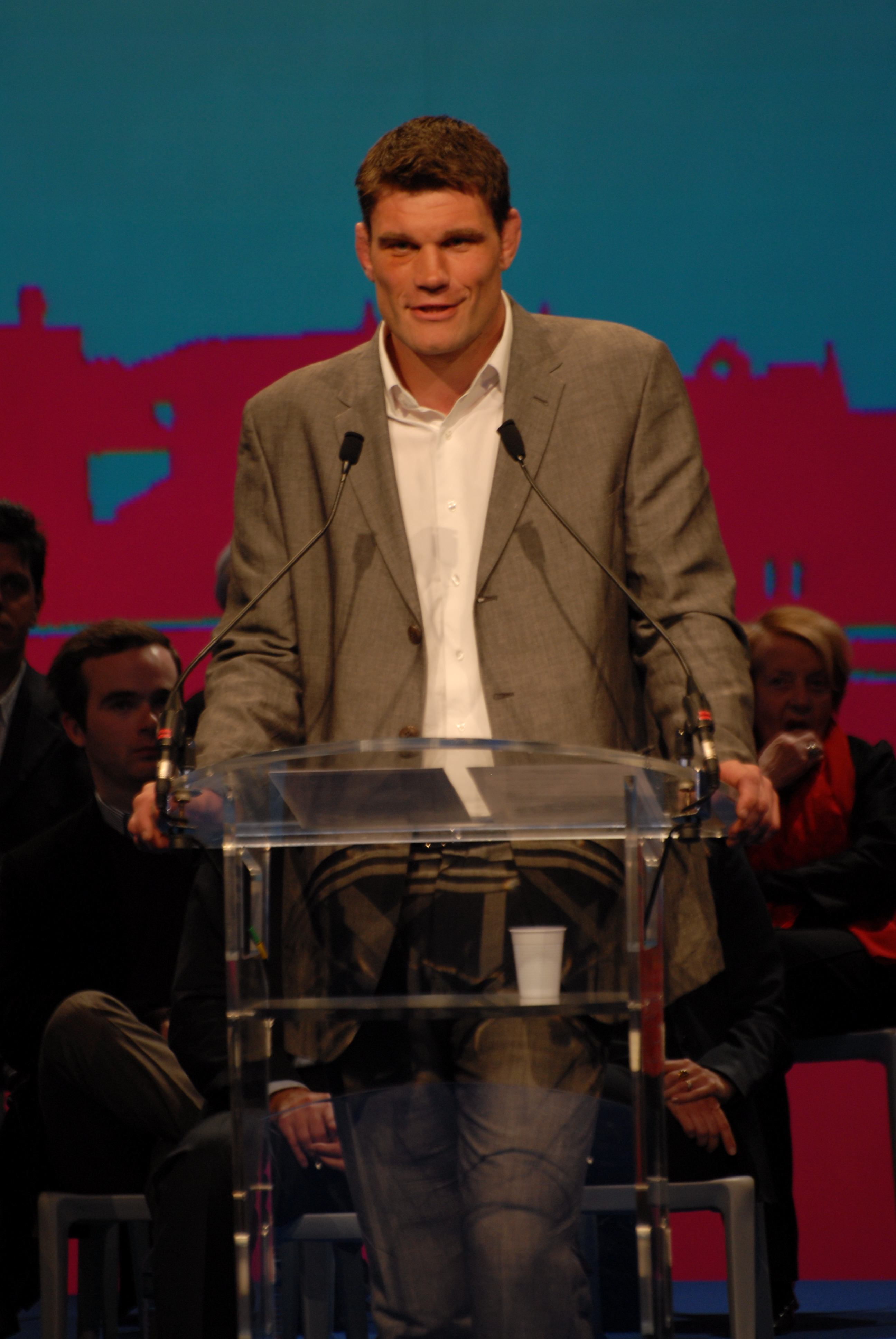 French rugby union player Fabien Pelous supporting Jean-Luc Moudenc's candidacy for the French town elections in Toulouse, 2008.